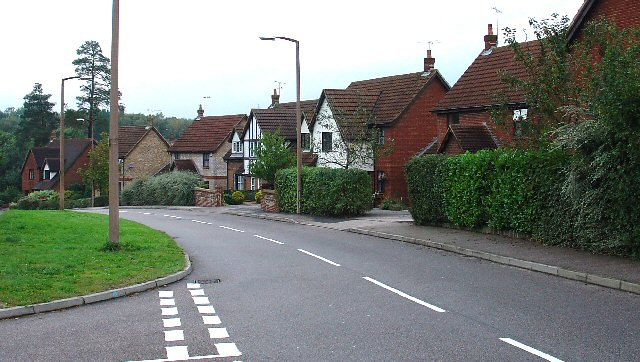 1990/2000s Housing. Another view of Chapman Road, Crawley, West Sussex. This short road (150m long) has a variety of housing - all helping to make the high packing density feel less oppressive. These houses are in the middle section of the road and are generally bigger than those shown near the street name sign. The origins of the area being a forest are evident in this view, with a couple of very large and mature trees left in situ to add interest to the area.